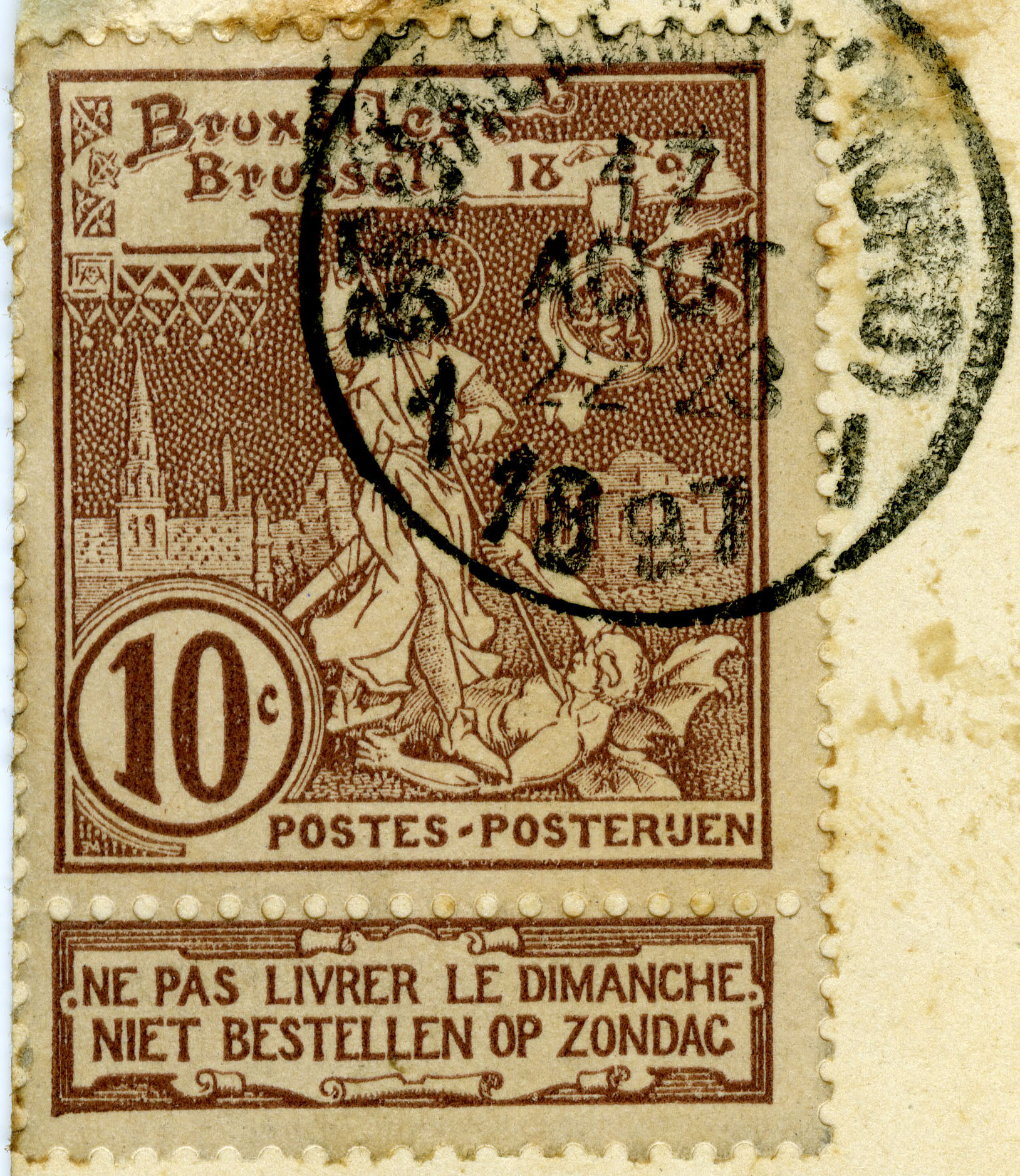 Belgium postage stamp and postmark from the Exposition Internationale de Bruxelles (1897). Stamp designer: Gerard Jozef Portielje.